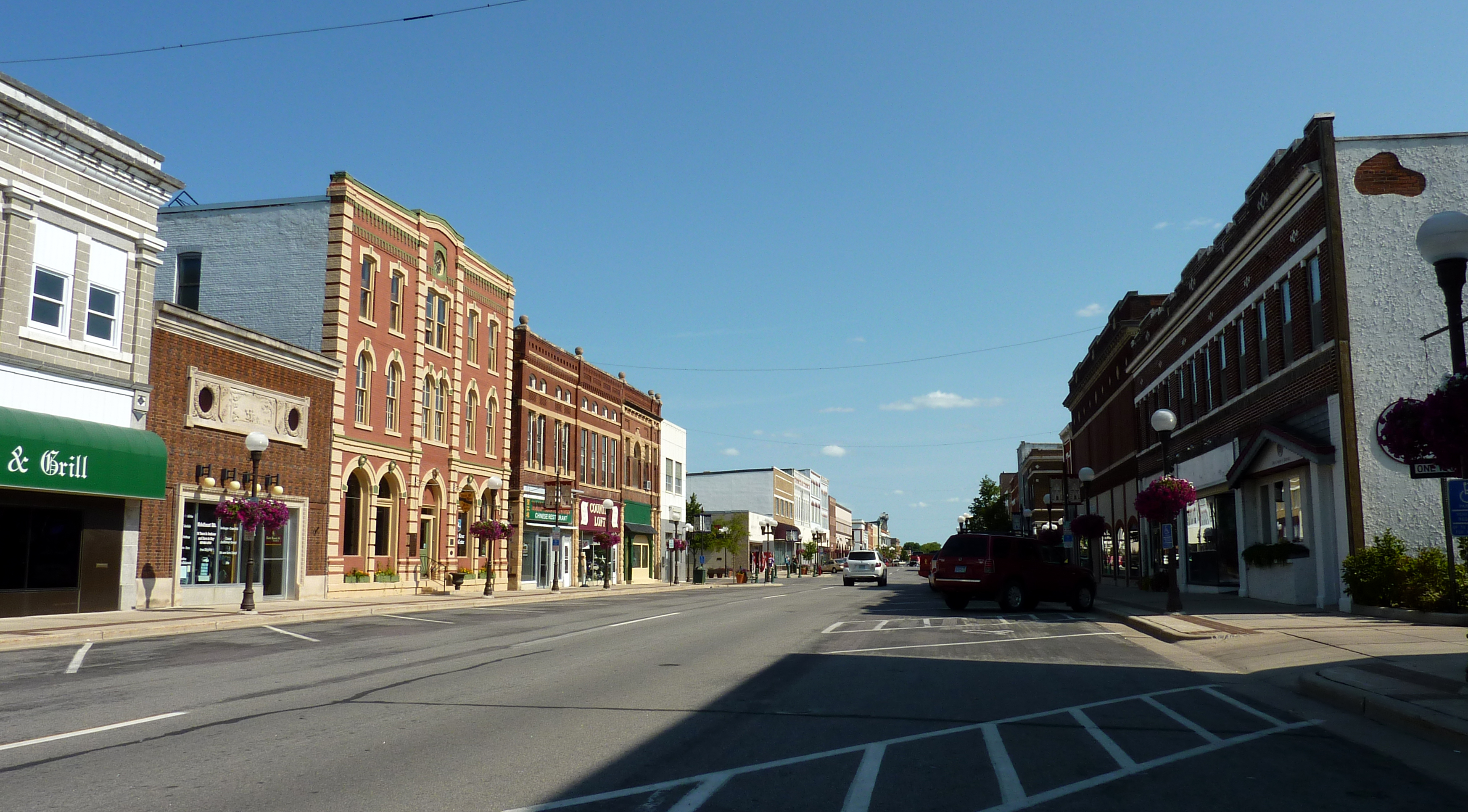 New Ulm Commercial Historic District, New Ulm, Minnesota, USA.